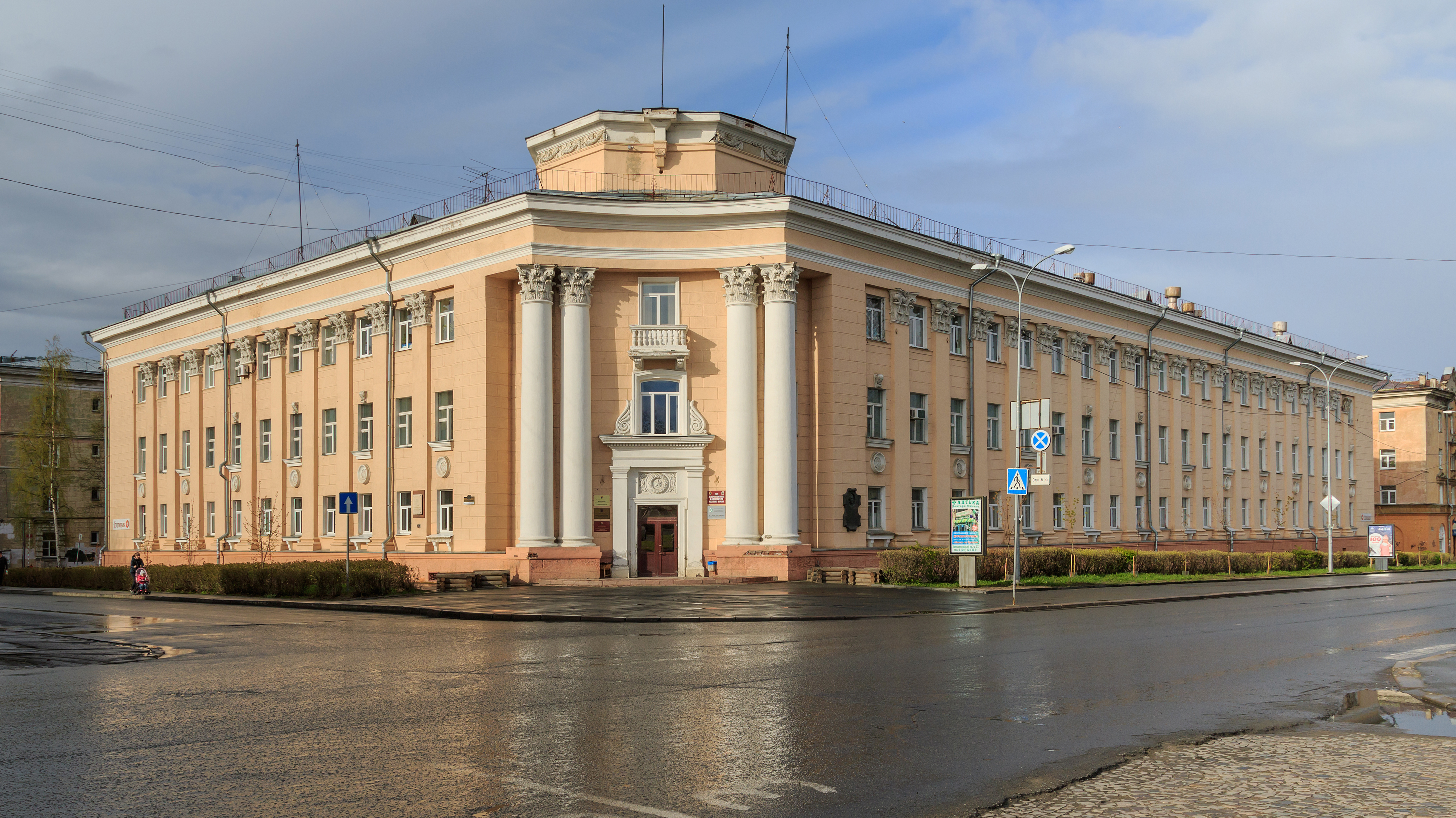 Building at Andropova Street / corner of Marx Avenue in Petrozavodsk, Republic of Karelia (Russia).